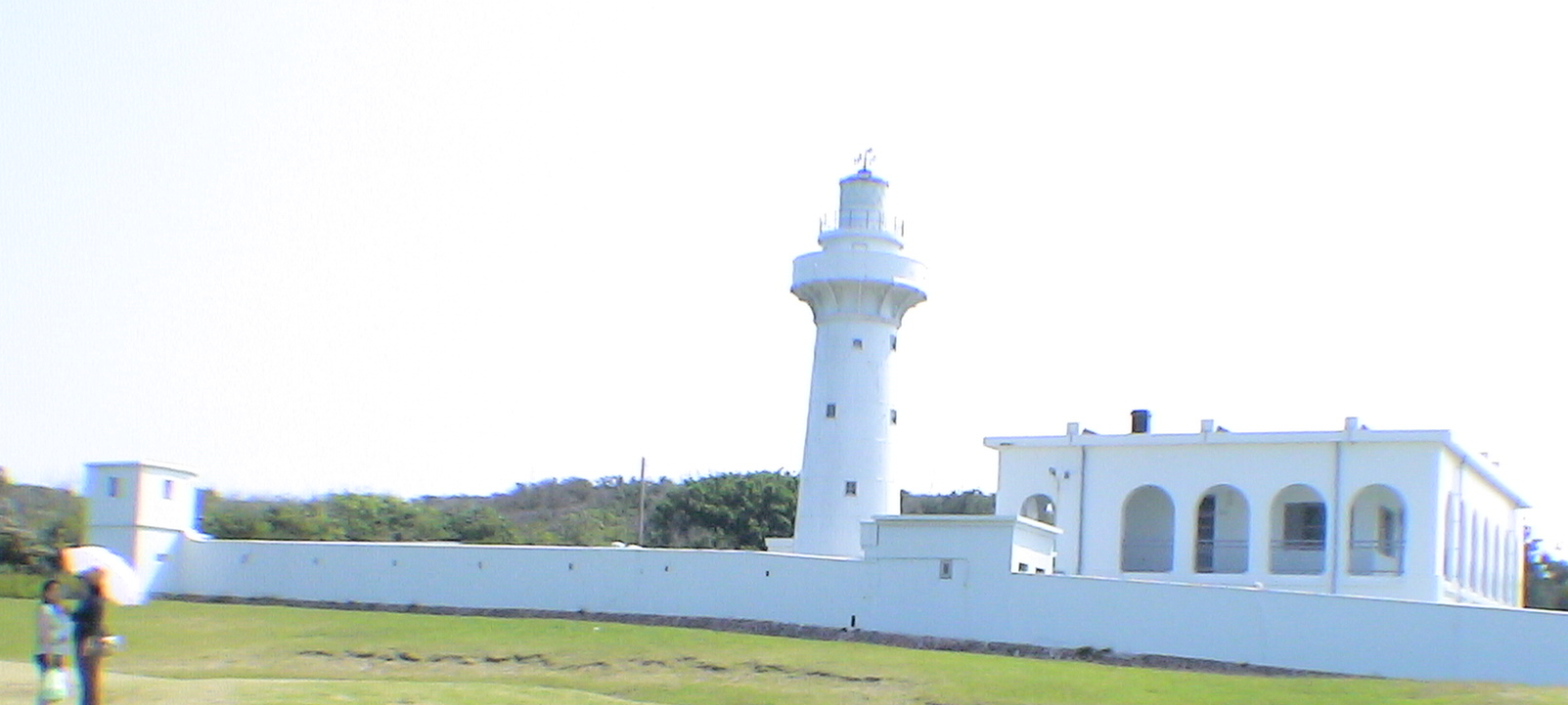 Eluanbi Lighthouse (Eluan Pi, O-Luan Pi), located in the Kenting National Park. (NGA:112-13768).